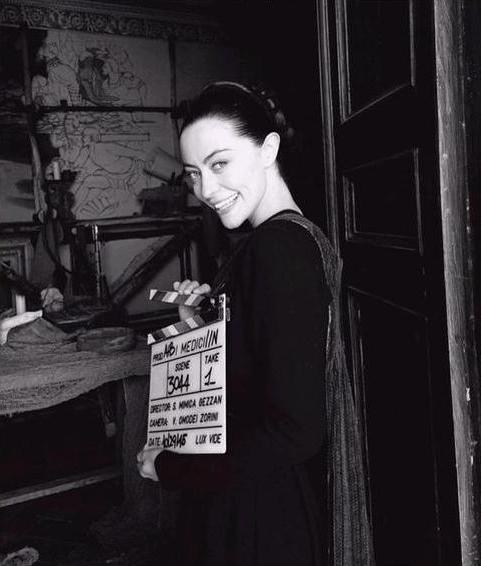 Tatjana Nardone backstage filming I Medici